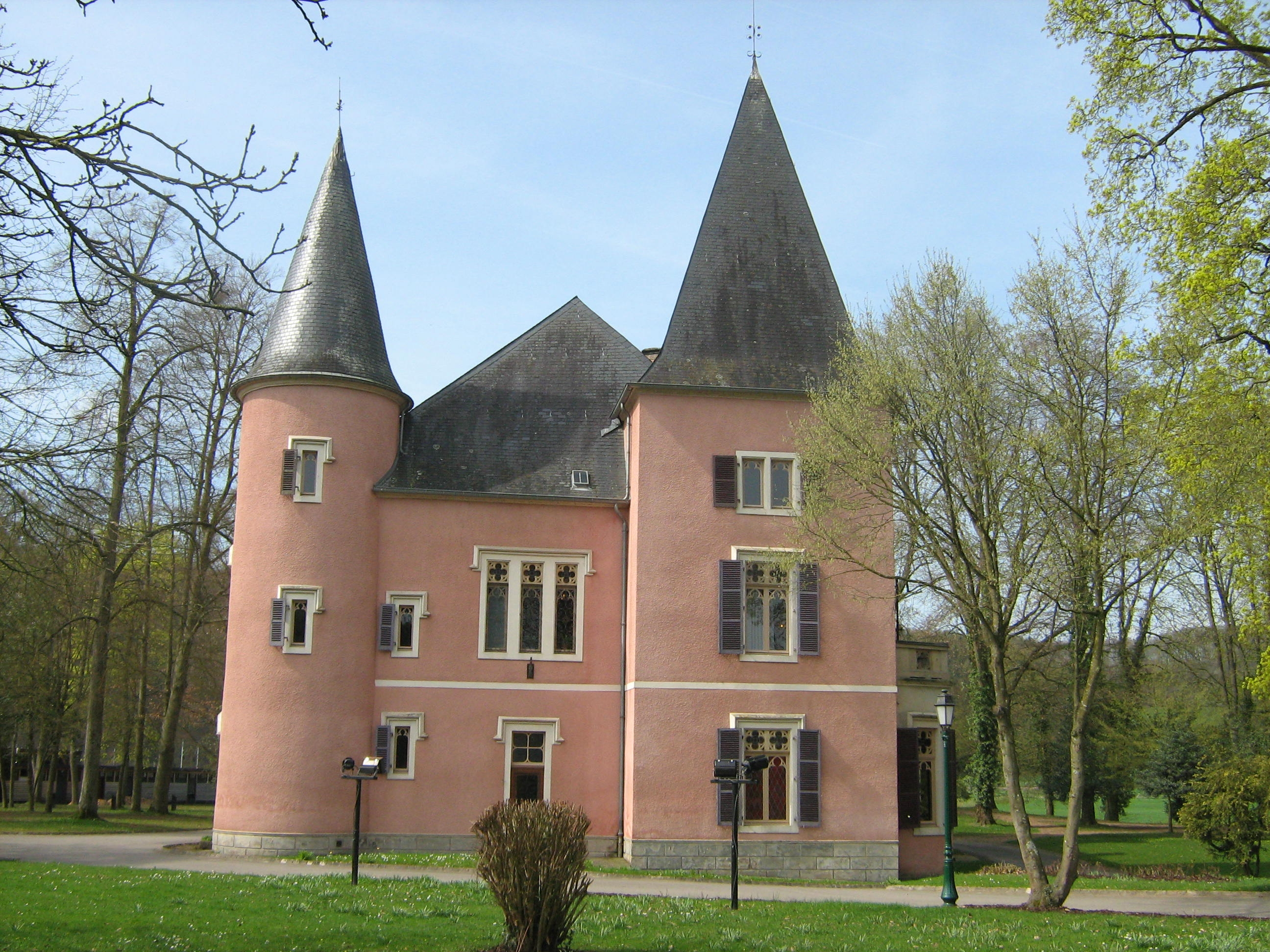 Erpeldange Castle near Diekirch, Luxembourg